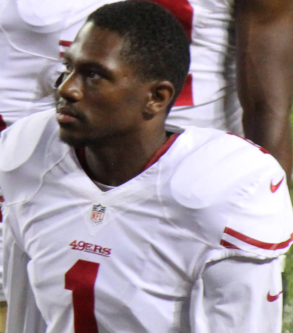 Issac Blakeney, a player on the National Football League.